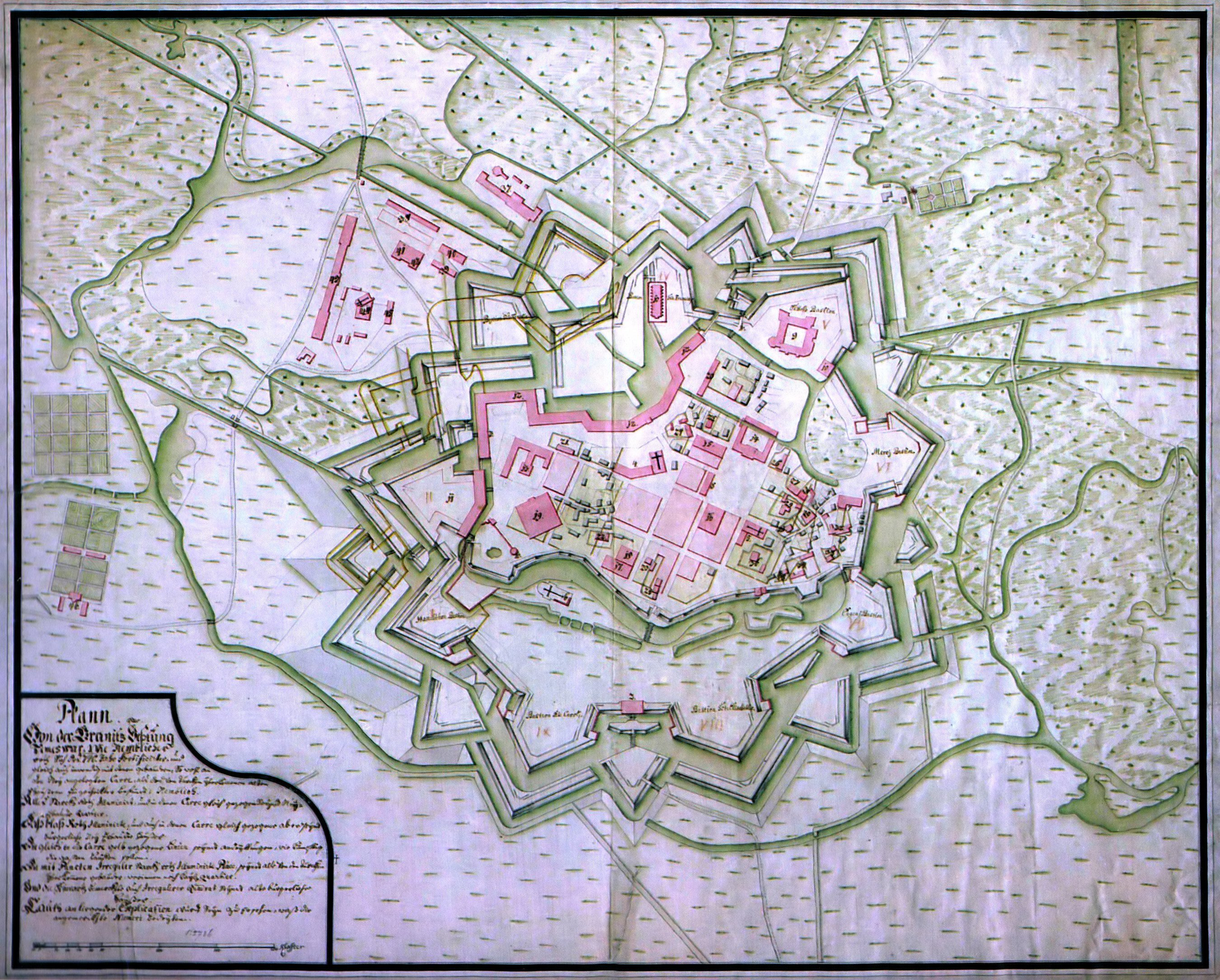 Plan of the border fortress Timisoara, 1740